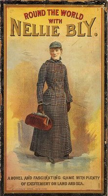 cover